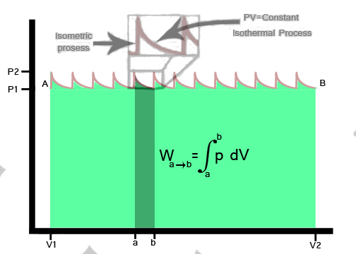 P-V diagram with a formula for calculating the work beneath the curve.